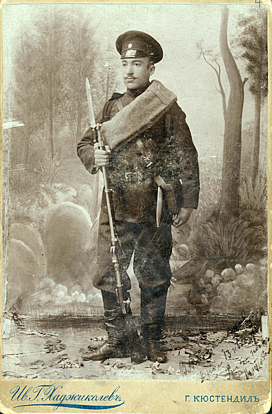 Vladimir Karamanov as a soldier in August 1897 - 2